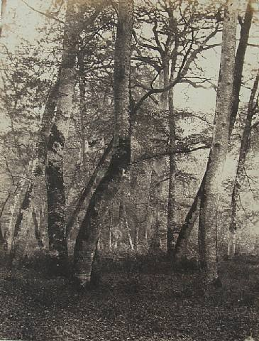 Eugène Cuvelier, TITLE: Hetres (Buchen) ARTIST: Eugène Cuvelier WORK DATE: circa 1860 CATEGORY: Photographs MATERIALS: Salzpapierabzug SIZE: h: 25.5 x w: 19.8 cm / h: 10 x w: 7.8 in REGION: French STYLE: vintage GALLERY: Galerie Sabine Schmidt Česky: Eugène Cuvelier